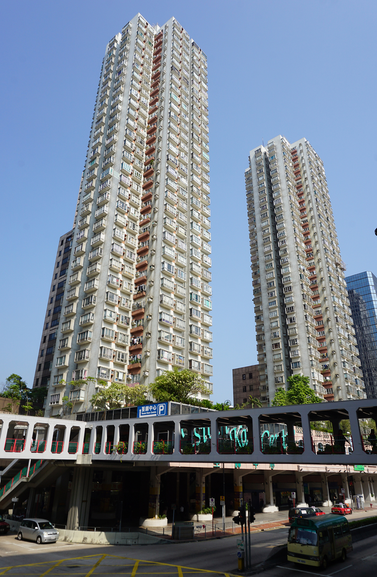 Tsuen Kam Centre in Tsuen Wan, Hong Kong.